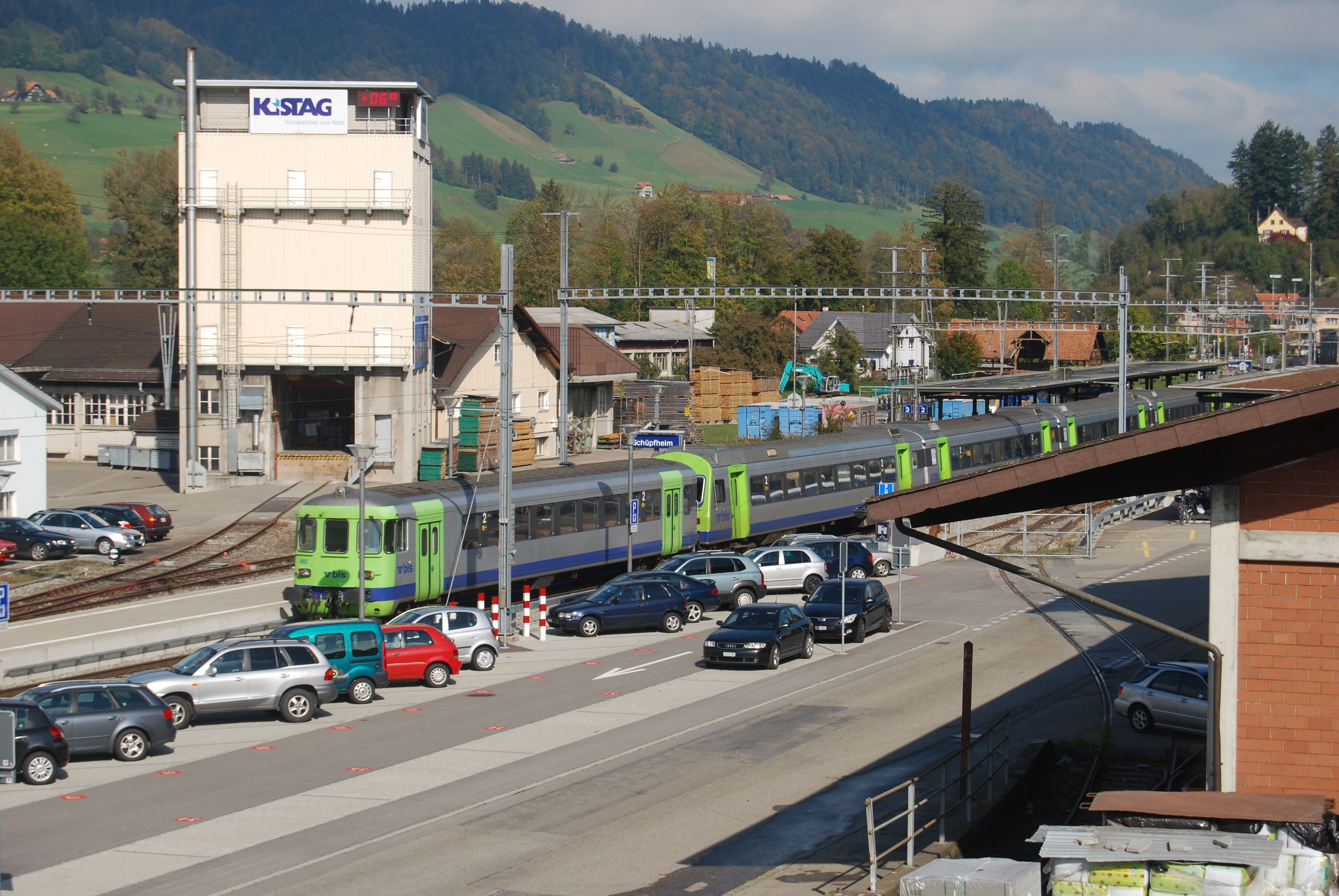 Train station of Schüpfheim, canton of Luzern, SwitzerlandEsperanto: Stacidomo de Schüpfheim, Kantono Lucerno, Svislando